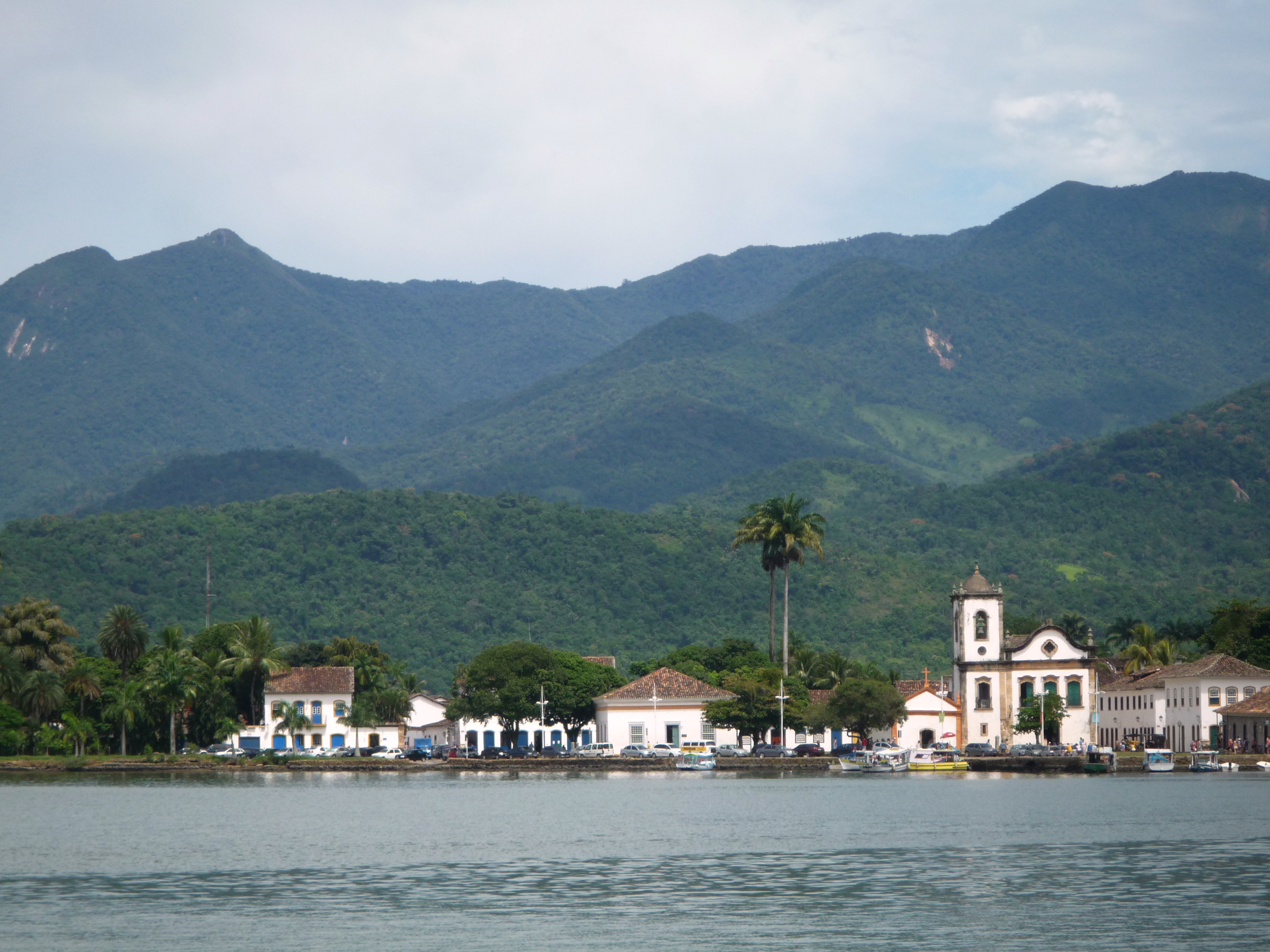 Landscape of Paraty, Brasil